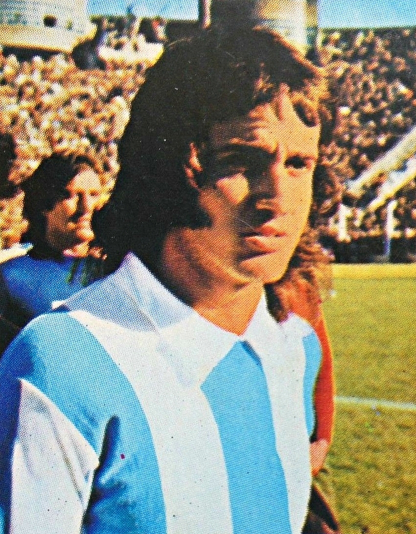 Norberto Alonso playing for the Argentina national team.